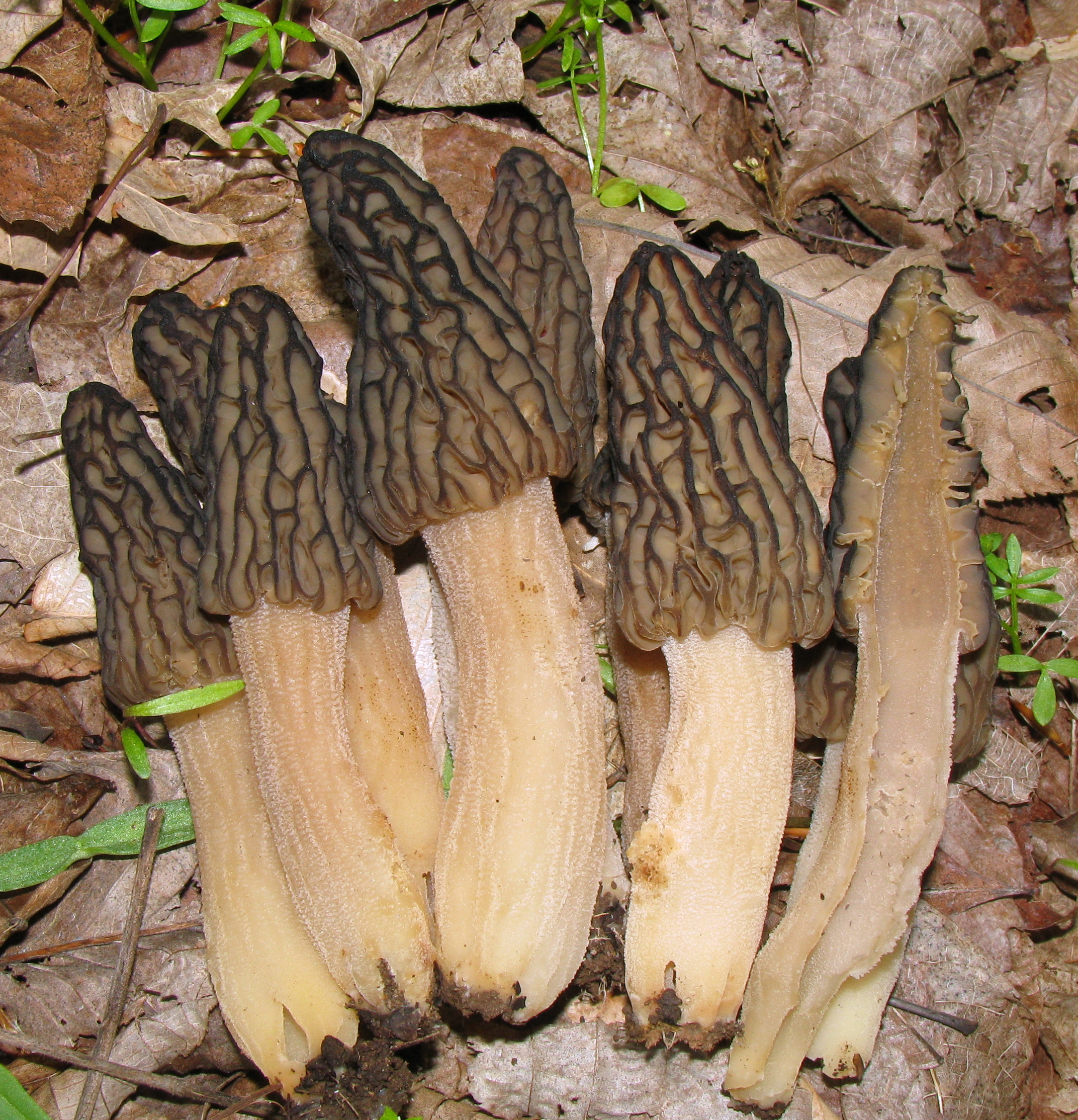 Morchella elata Fr. Location: Wayne National Forest, Athens Co., Ohio, USA Observation Notes: abandon the Name Morchella angusticeps it is clearly confusing and not well described at all. what to call it then? I don’t know……. For more information about this, see the observation page at Mushroom Observer.